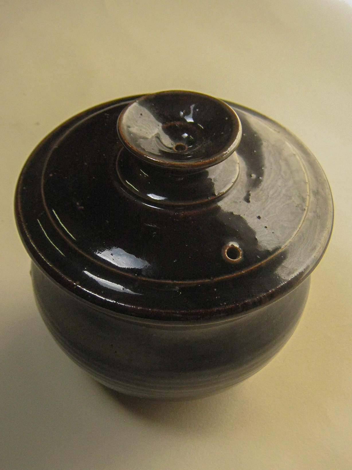 Tenmoku lidded jar by Ian Sprague; photographed in a private collection at Enfield Victoria